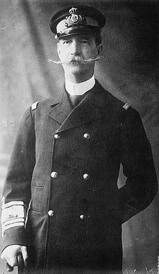 King George I of the Hellenes